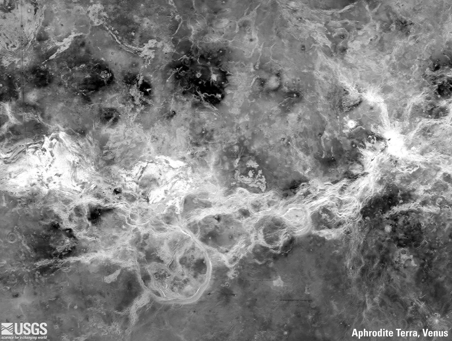 Venus: Aphrodite Terra This region is one of the most rugged on Venus. The terrain of this region is made up of tessera, which are interlacing ridges and valleys. The imagery was collected by the Magellan mission, which used radar to "see" the surface of Venus beneath its heavy atmosphere.